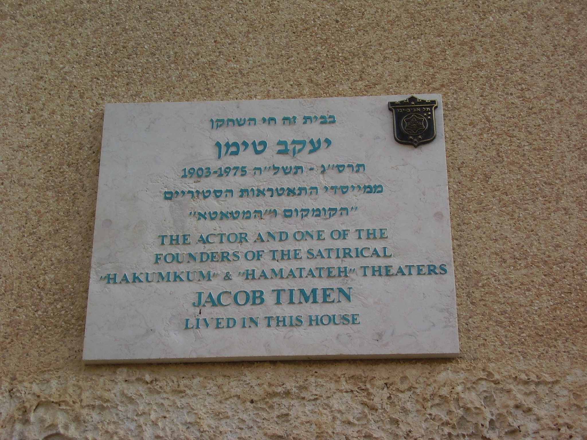 memorial plaques on the actor jacob timen house in tel aviv לוחית זיכרון על ביתו של השחקן יעקב טימן ברחוב גורדון 29 בתל אביב